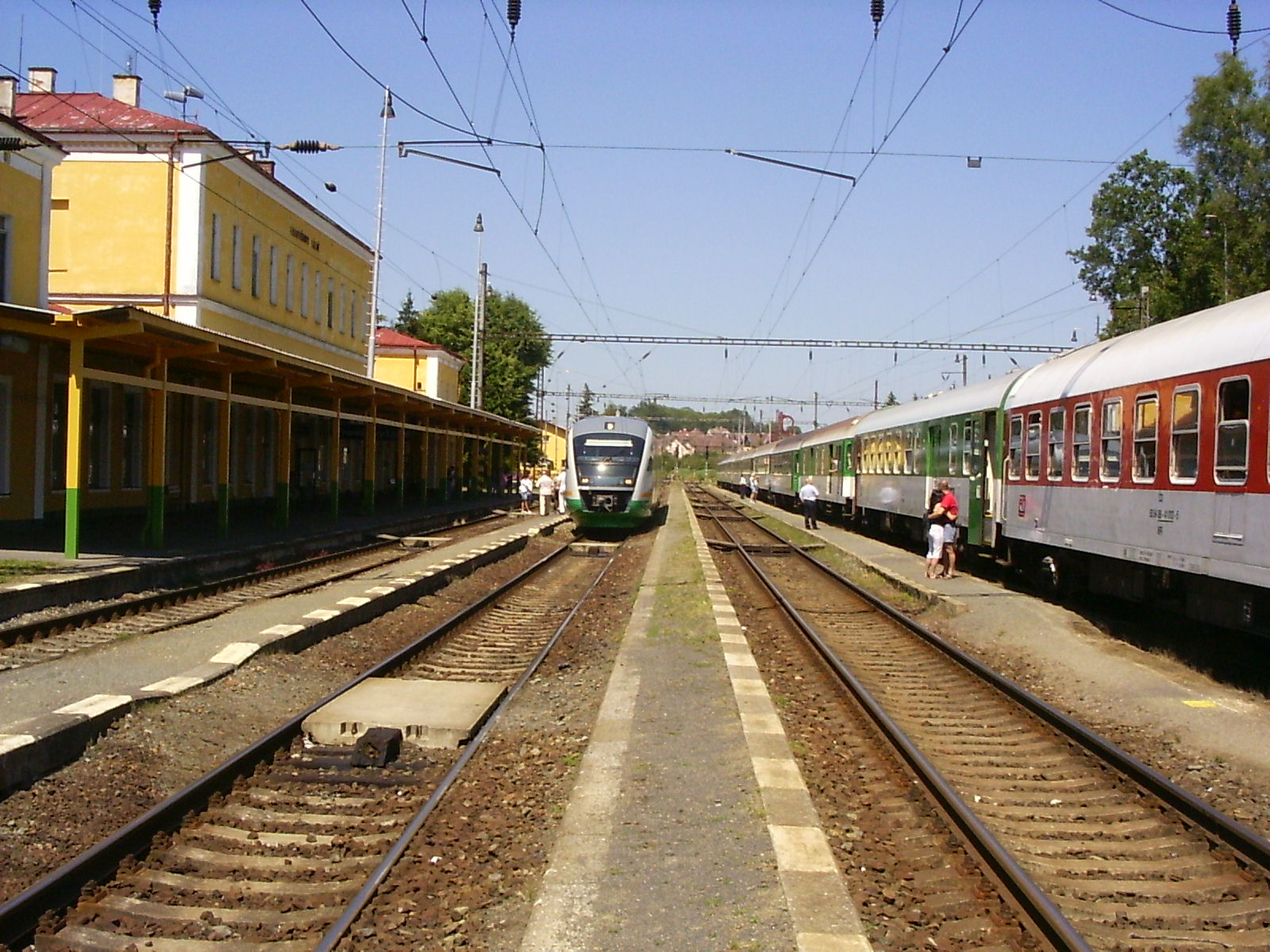 Vogtlandbahn lightrail train at Františkovy Lázně station